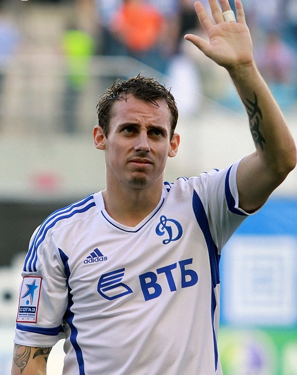 Luke Wilkshire